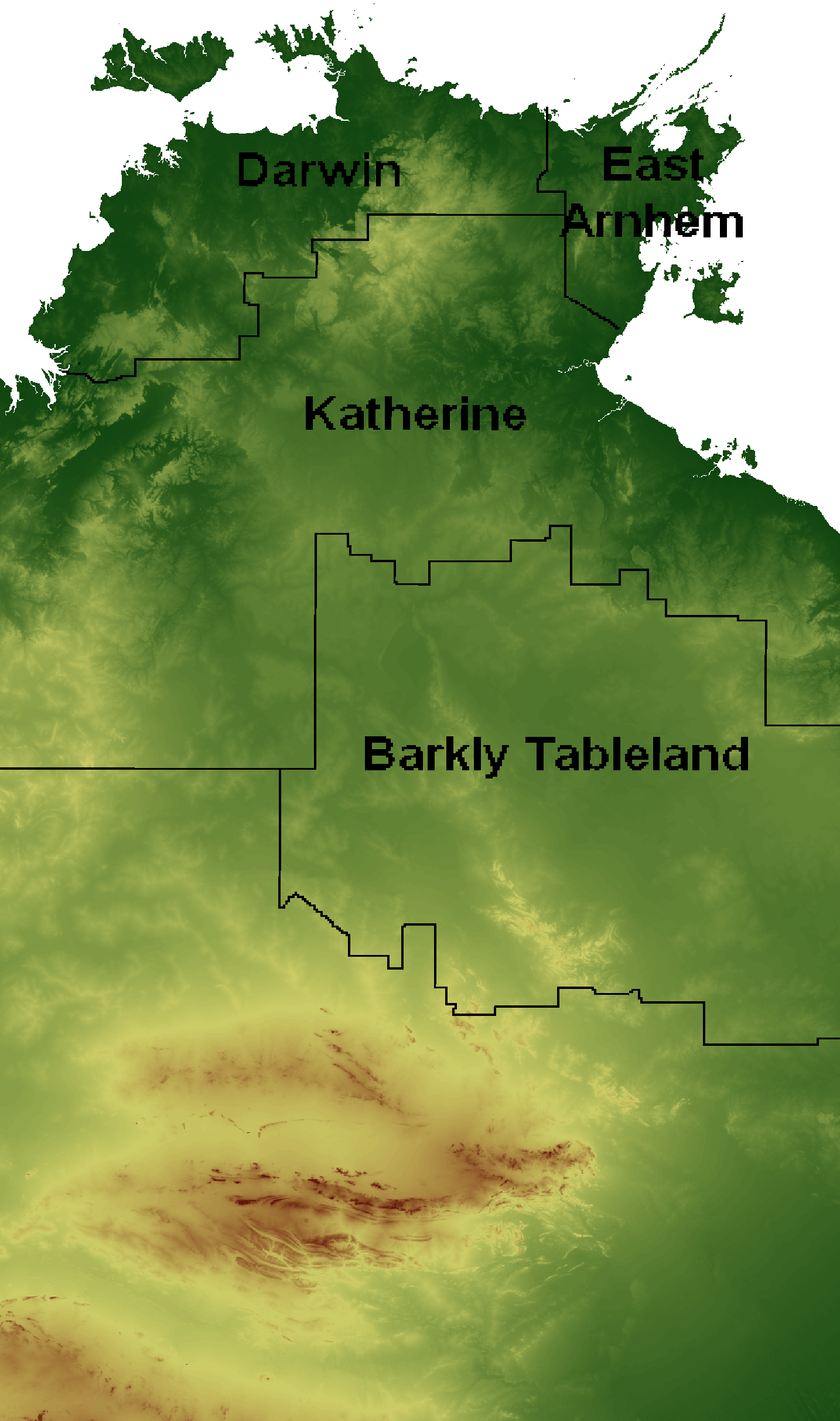 An elevation model of Australia's Northern Territory with a rough region overlay. From this view it can be clearly grasped why the Barkly Tableland has been named a "tableland". The darker greenish colour in the Barkly Tableland region corresponds to an elevation of about 200 to 300 meters. Elevation data is from the SRTM30 dataset published by the USGS, thus being in the public domain. The data has been retrieved via The region overlay is from this CC-BY-SA-3.0 file by enwiki user Piano01. Map created using ESRI ArcMap 10.2.2.